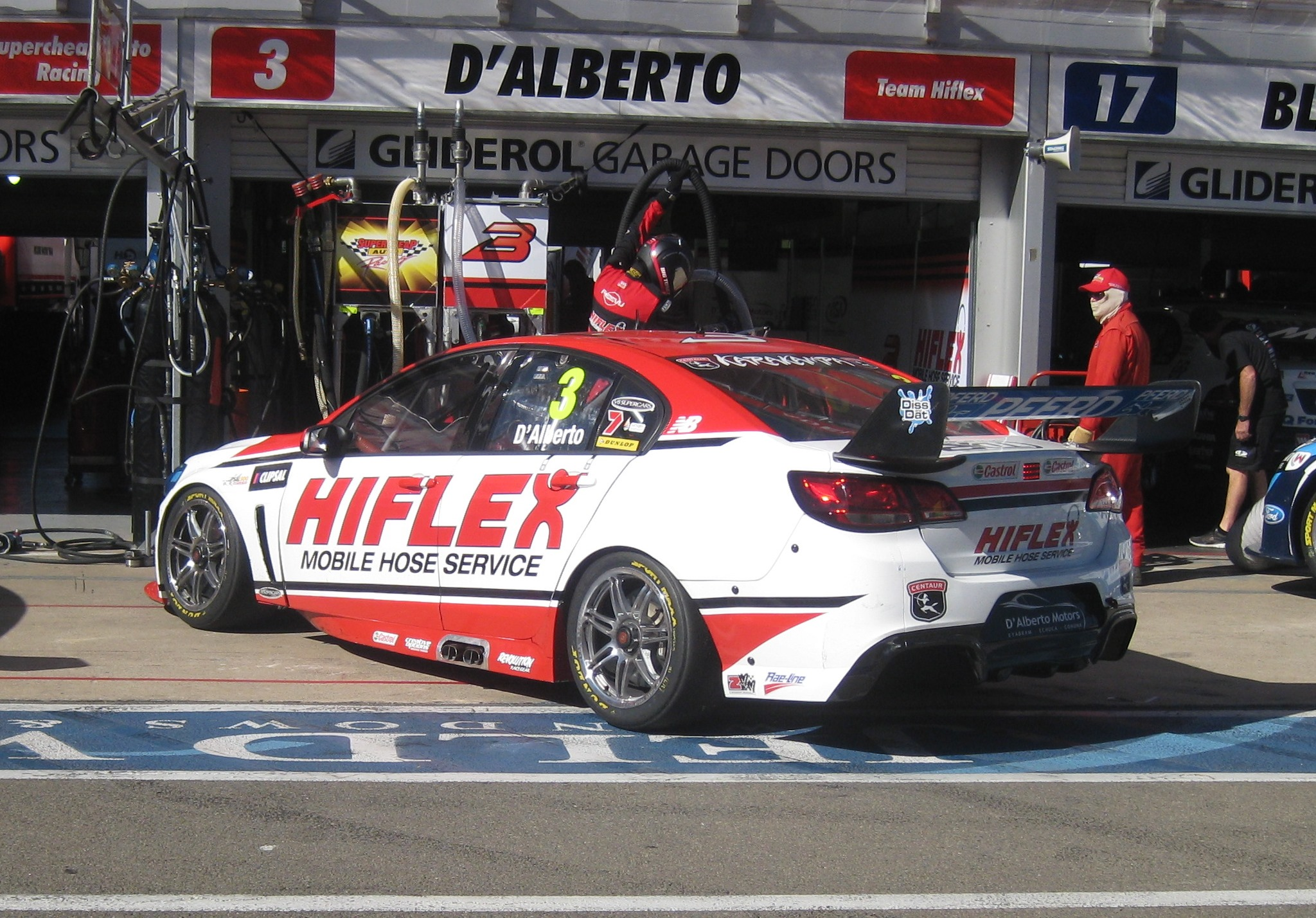 The Holden VF Commodore of Tony D'Alberto at the 2013 Clipsal 5020 Adelaide